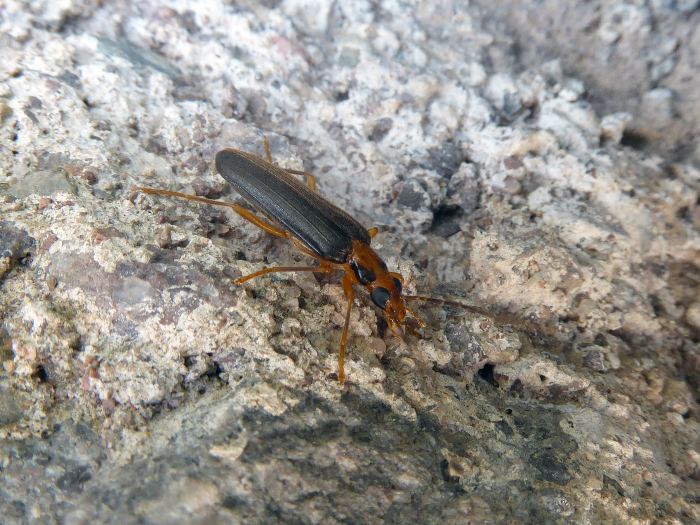 Nacerdes carniolica photographed in Piazzo (Segonzano, Trentino, Italy)